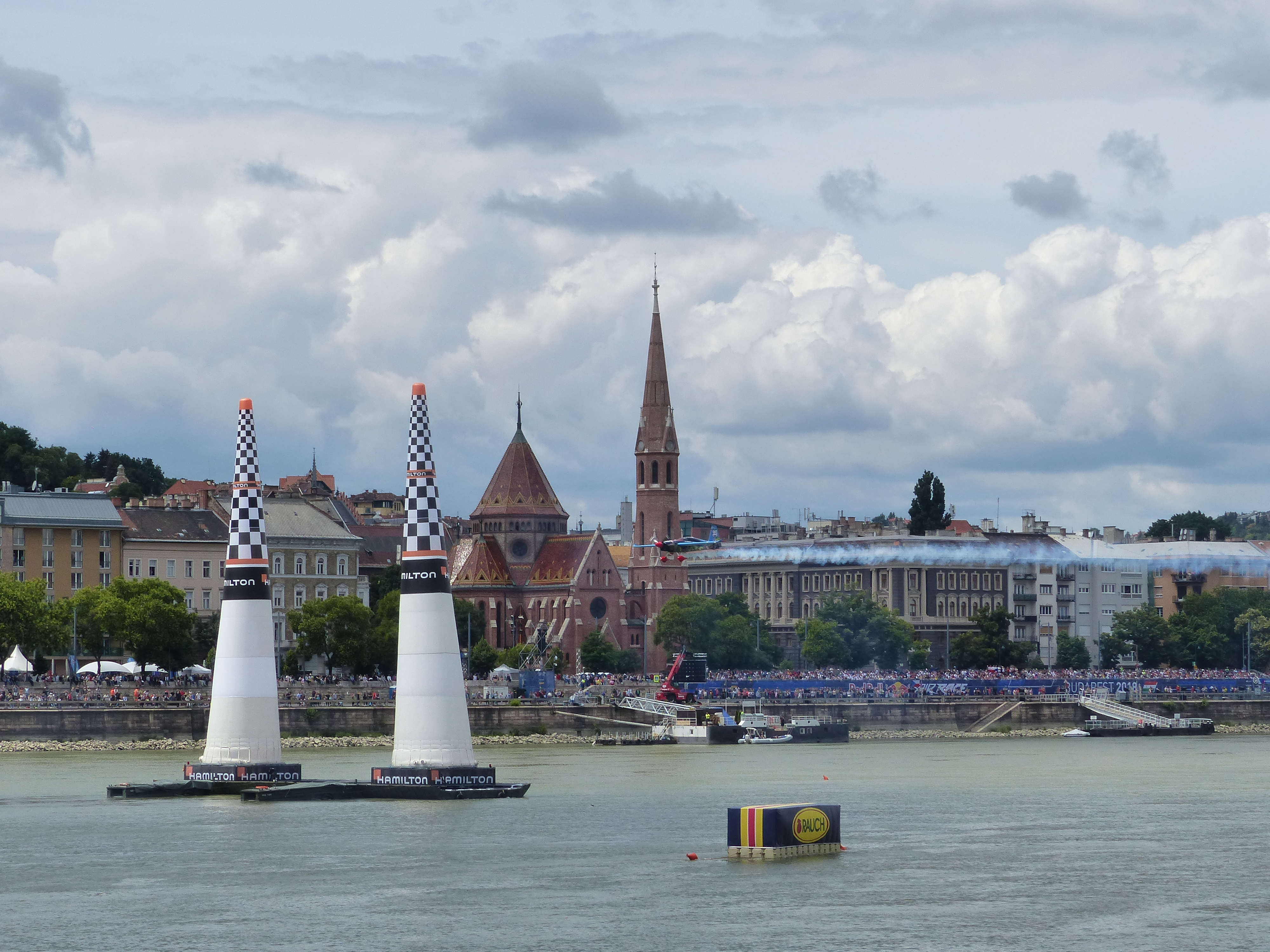 Red Bull Air Race 2018. Taken on the 24th of June, 2018. Budapest, Central Europe.